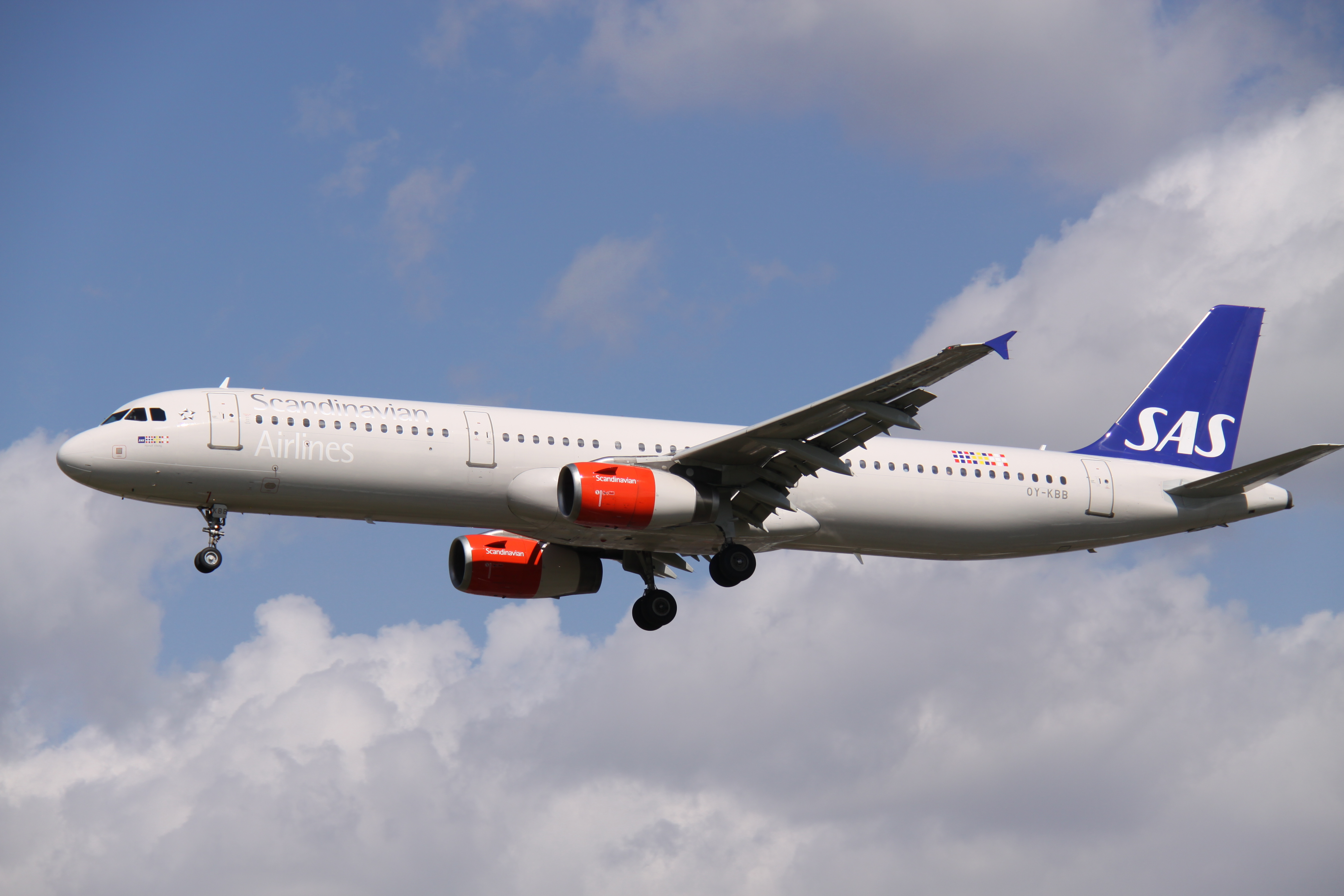 At London Heathrow